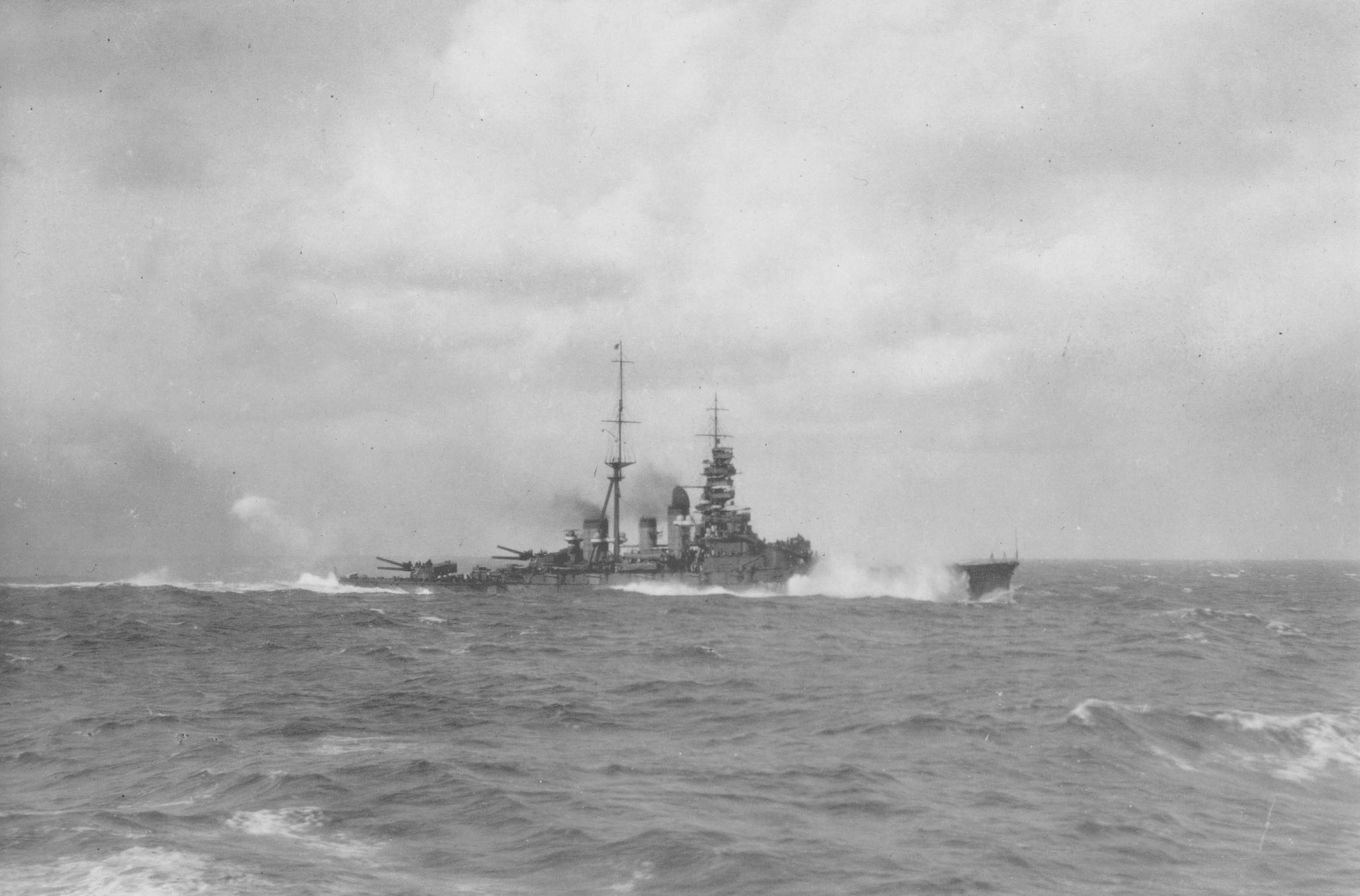 Imperial Japanese Navy battlecruiser Hiei participates in a major fleet exercise south of Oshima Island.